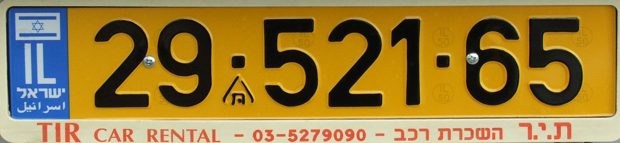 Vehicle licence plate from Israel as seen in 2008.